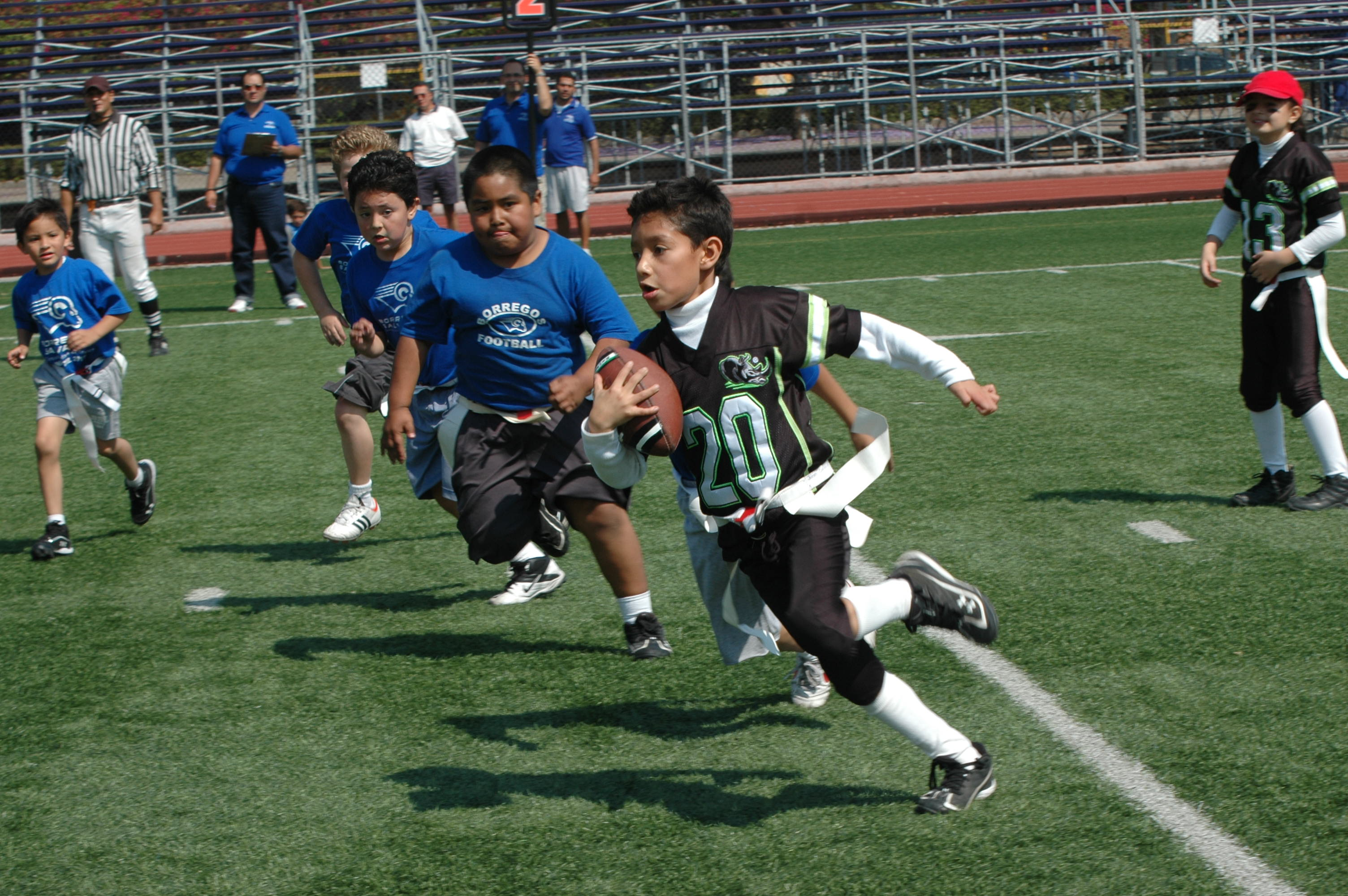 ITESM CCM junior “Zorros” vs the Football Team Rhinos A.C.